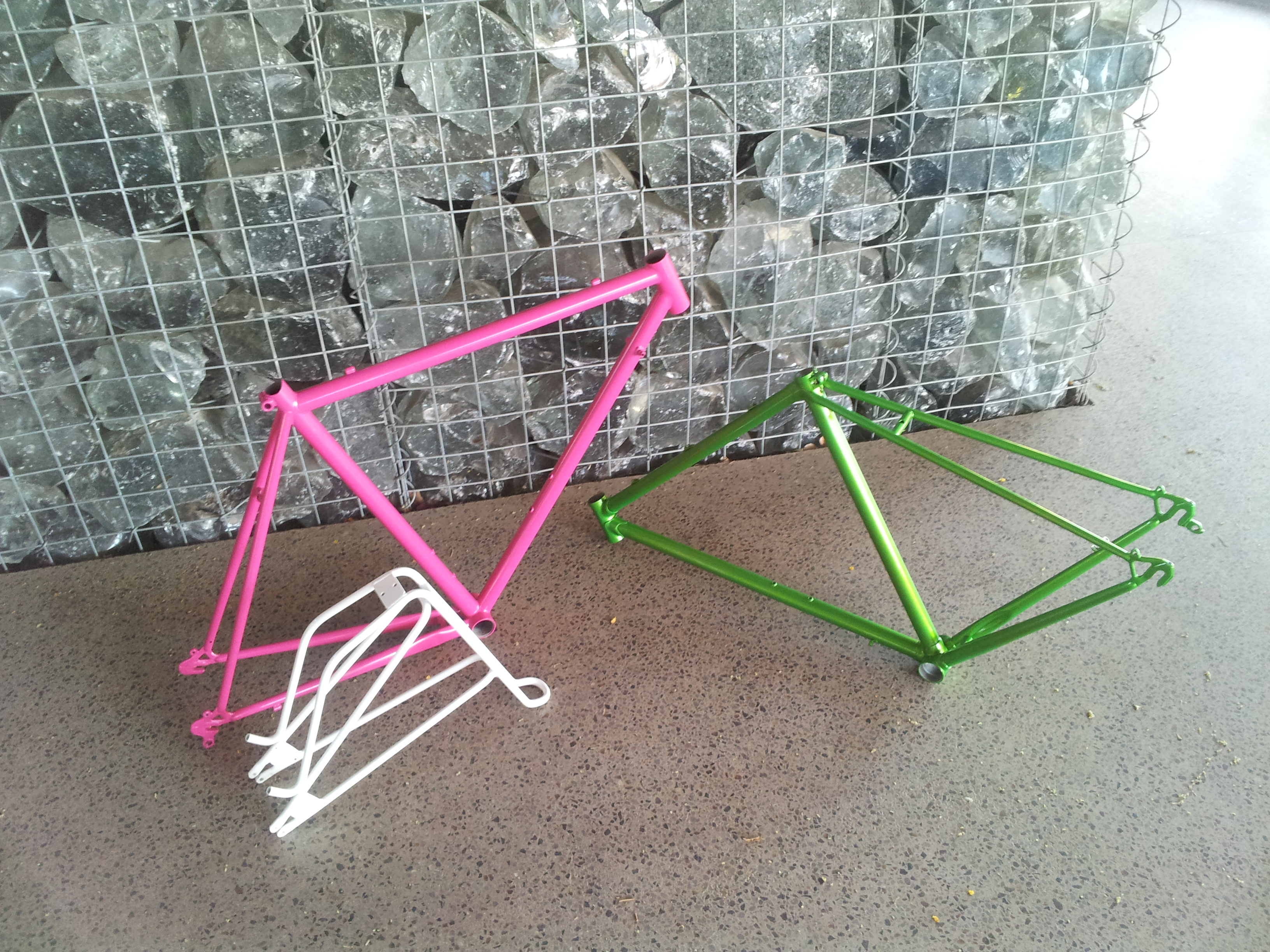 This photo shows two powder coated bicycle frames and a powder coated rear bicycle rack.